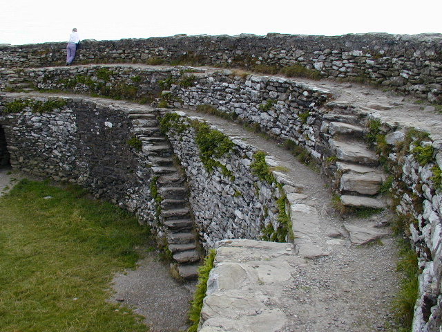 Grianan Ailigh interior